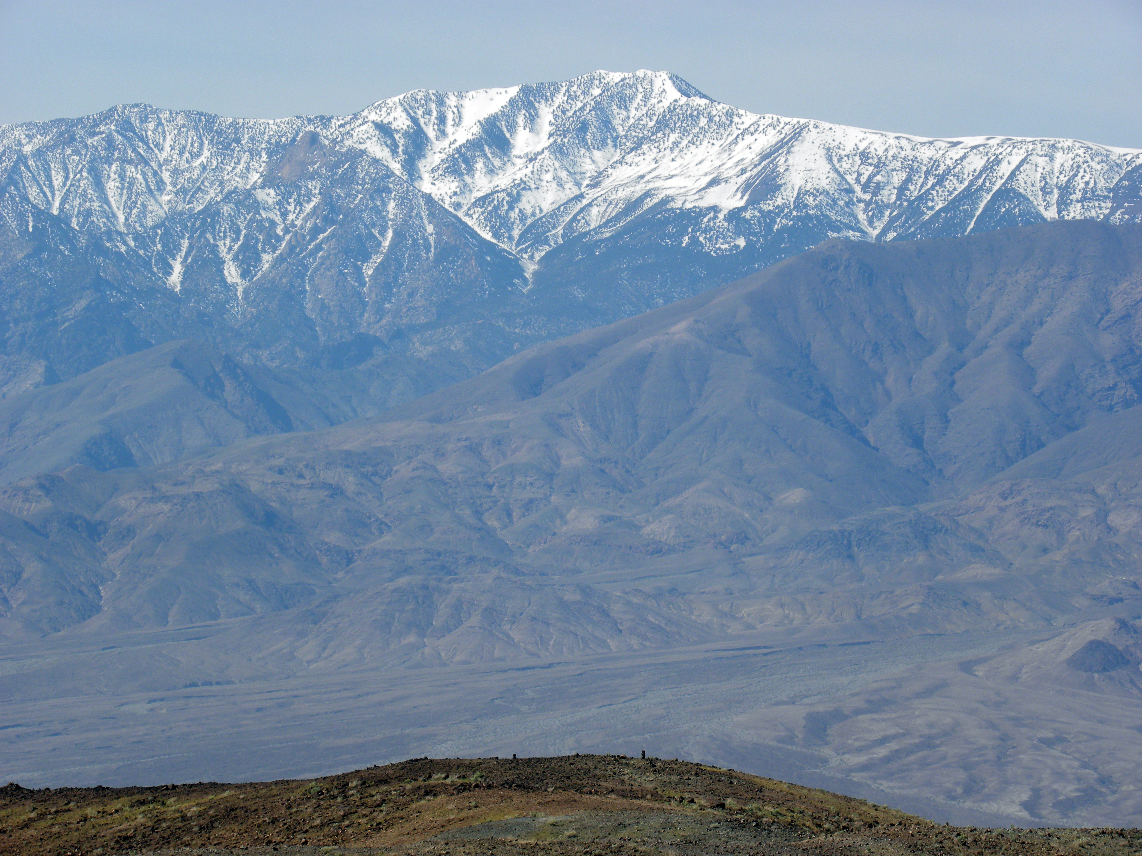 Telescope Peak in the Panamint Range, as viewed from Devil's Golfcourse in Death Valley, Death Valley National Park, California.